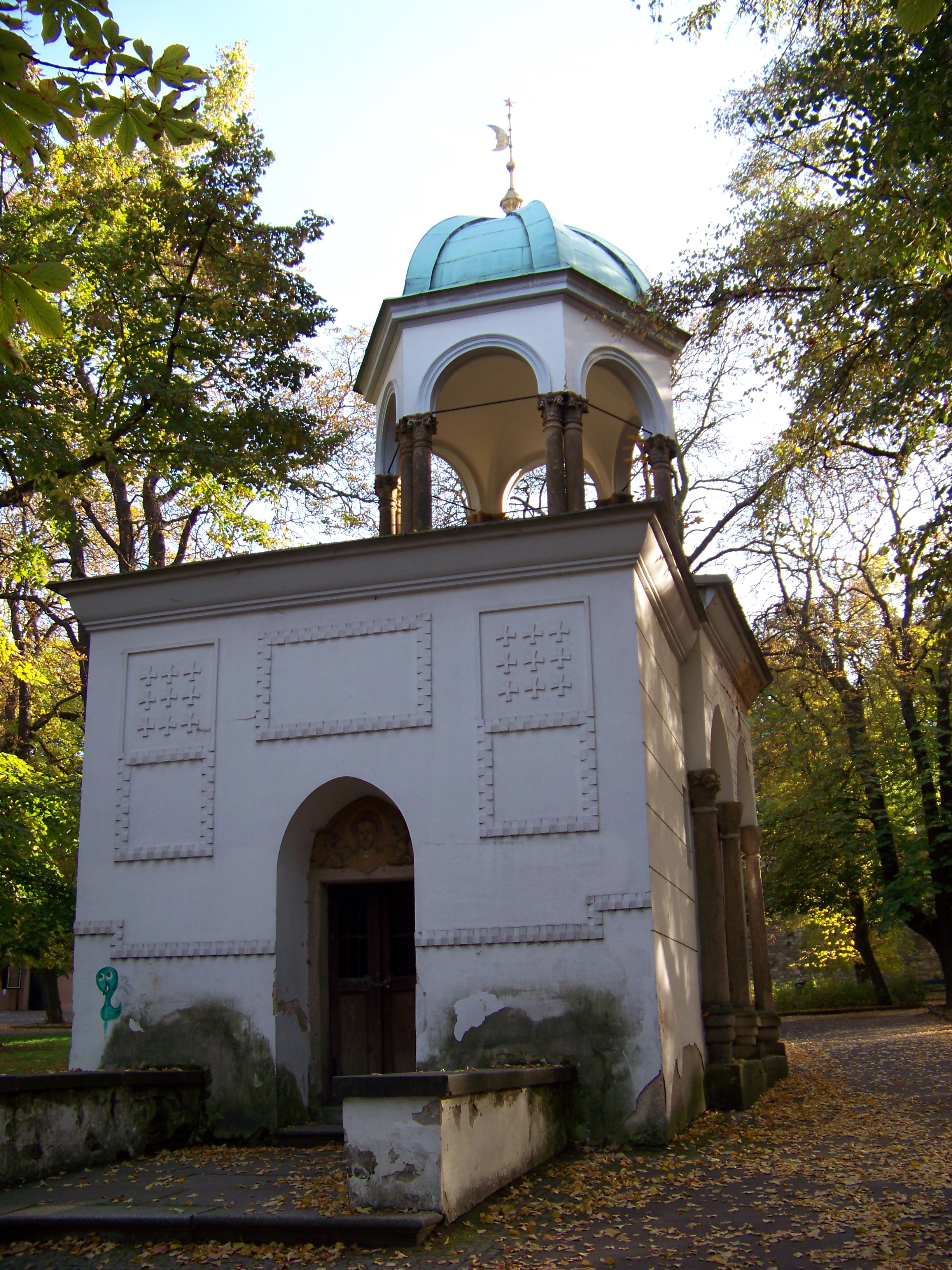 Prague-Malá Strana, the Czech Republic. Petřín hill, Petřín Park, Holy Sepulchre chapel. - OpenStreetMap(Info)